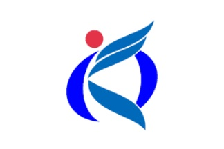 Flag of Ichikikushikino Kagoshima